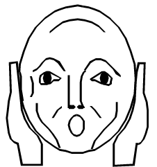 A simplified version of the subject of Edvard Munch's The Scream, considered by the US Department of Energy for use as a non-language-specific symbol of danger in order to warn future human civilizations of the presence of radioactive waste.